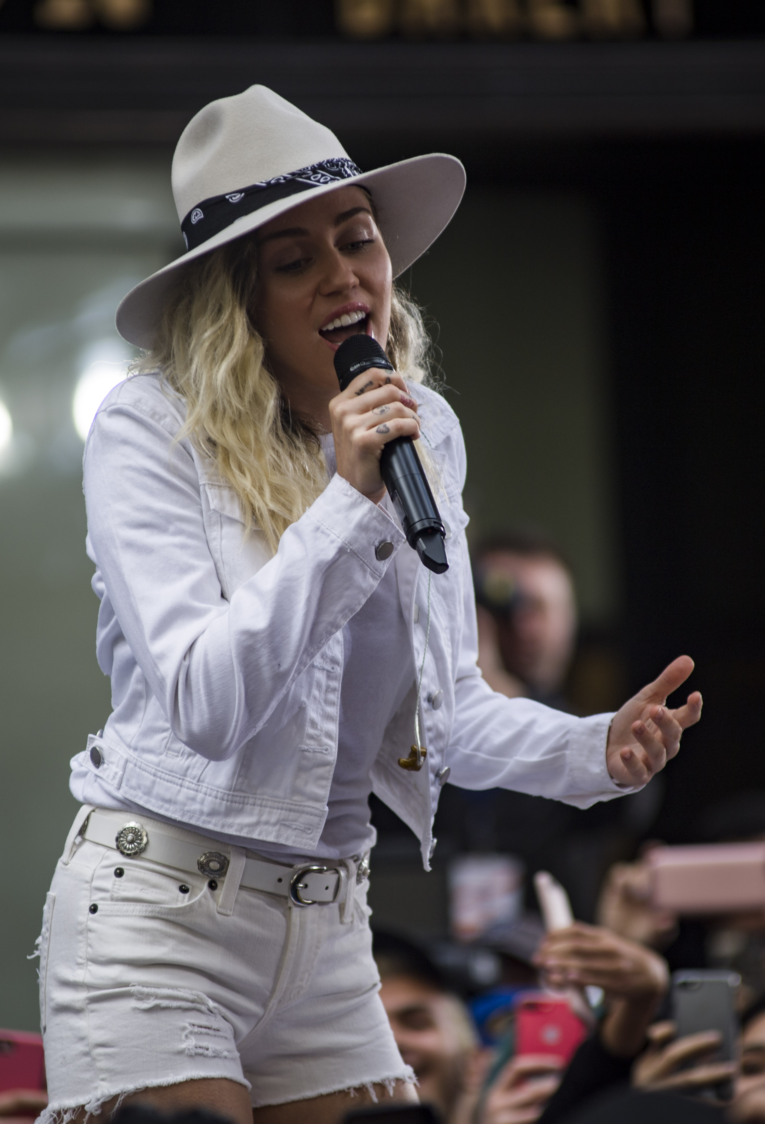 170526-N-EO381-052 NEW YORK (May 26, 2017) Ð Miley Cyrus performs on the Today Show in downtown Manhattan for Fleet Week New York (FWNY). FWNY, now in is 29th year, is the cityÕs time honored celebration of the sea services. It is an unparalleled opportunity for the citizens of New York and the surrounding tri-state area to meet Sailors, Marines and Coast Guardsmen, as well as witness firsthand the latest capabilities of todayÕs maritime services. (U.S. Navy photo by Mass Communication Specialist 3rd Class Casey J. Hopkins/Released)